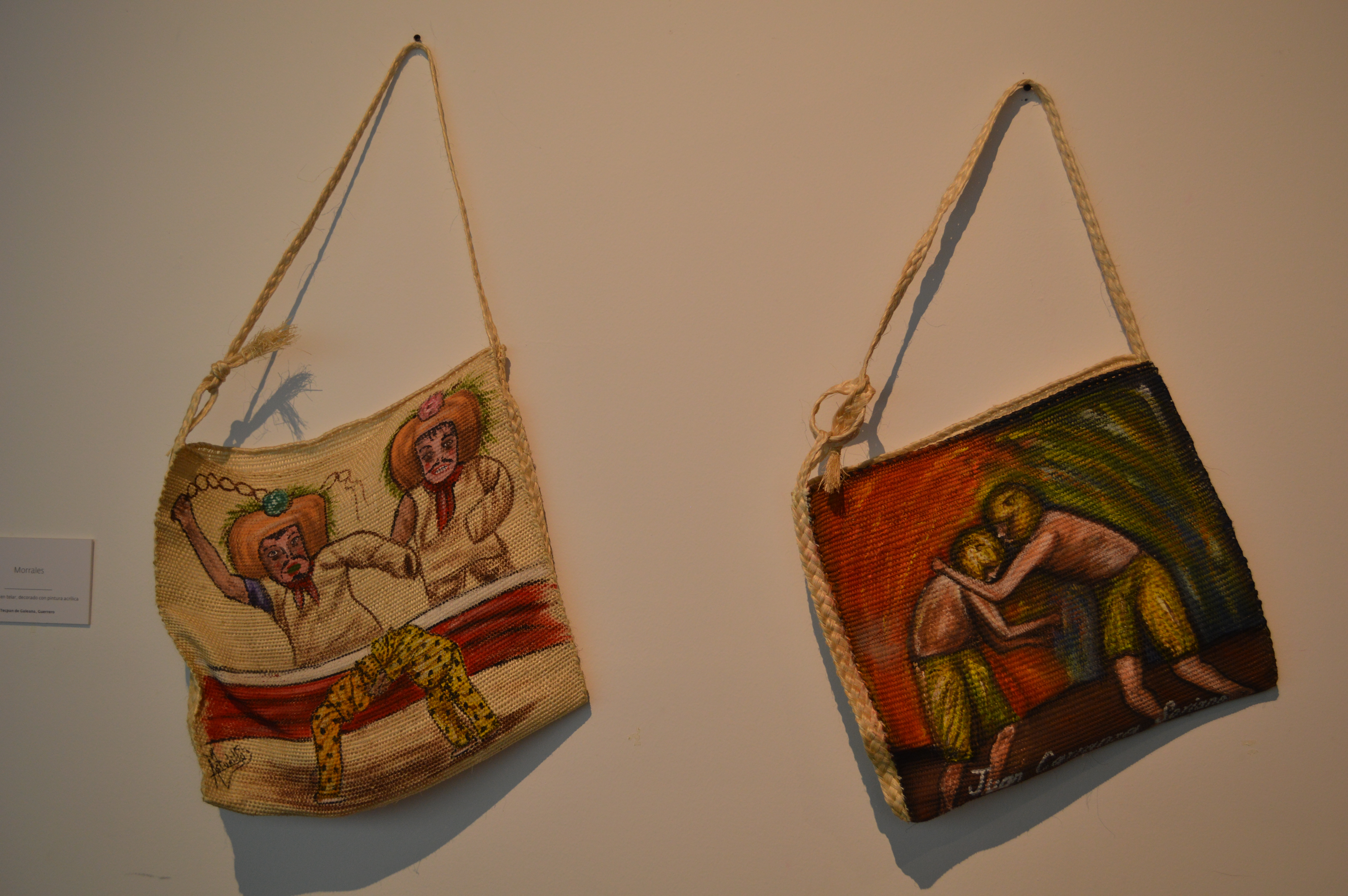 Ixtle carrying bags from Tecpan de Galeana, Guerrero, Mexico at the Ocho Regiones Puro Guerrero exhibit at the Museo de Culturas Populares in Mexico City